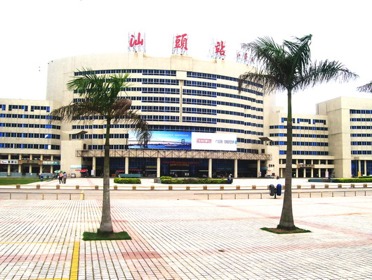 Swatow Railway Station